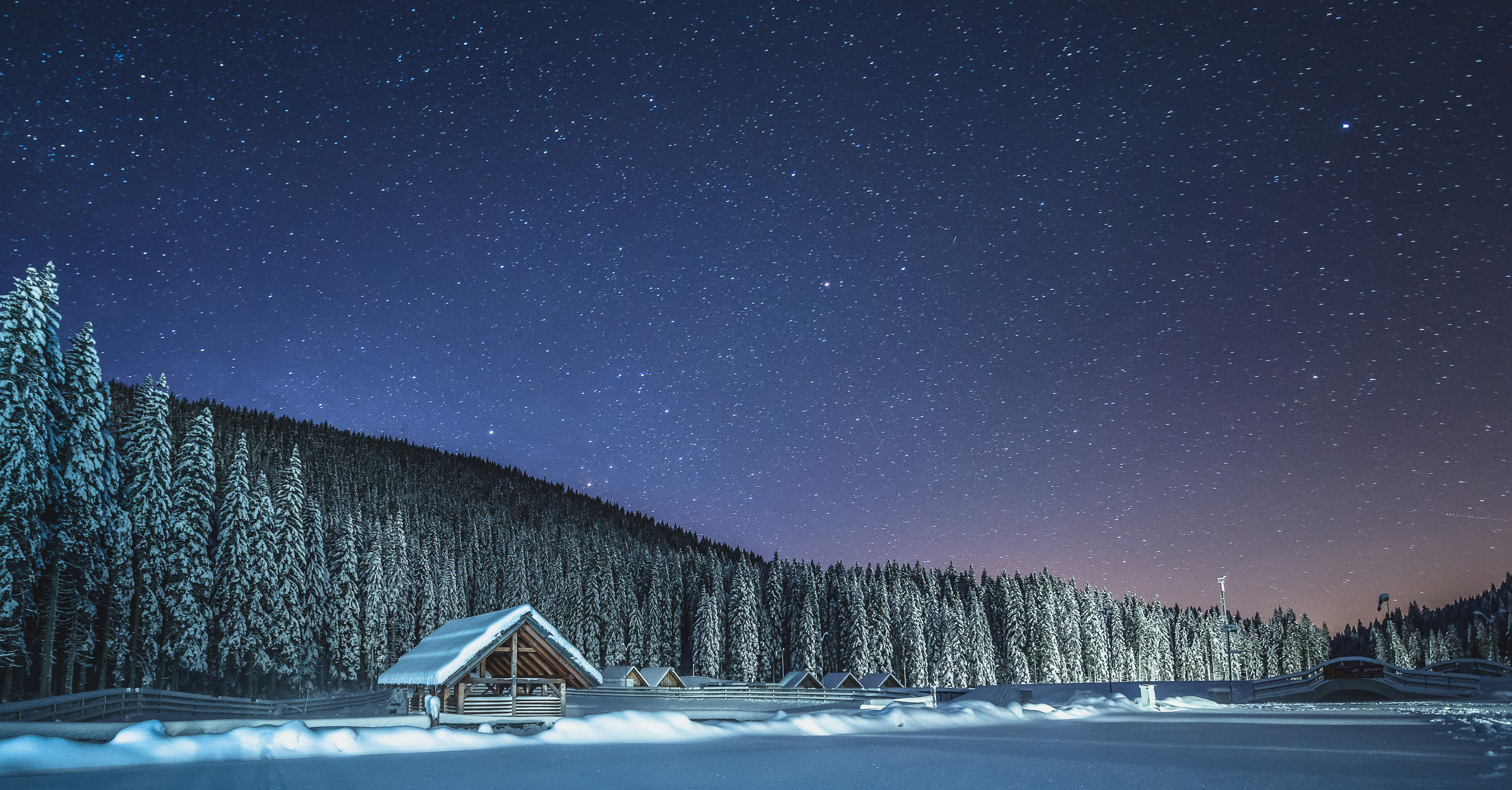 Derivative work, based on original photo (cropped)